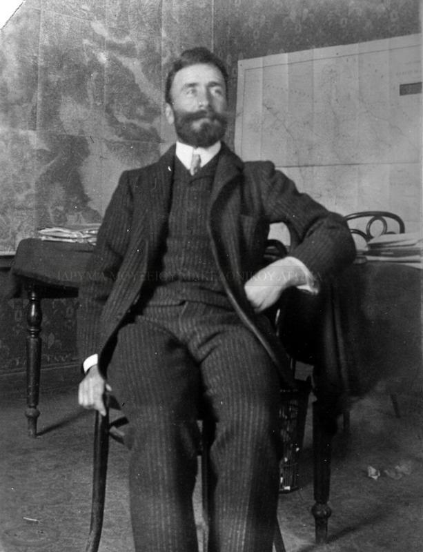 Greek Army officer Ioannis Avrasoglou (Ιωάννης Αβράσογλου) Greek Macedonian born in Gevgelija (Γευγελή της Π.Γ.Δ.Μ.) Грците во Гевгелија Македонија